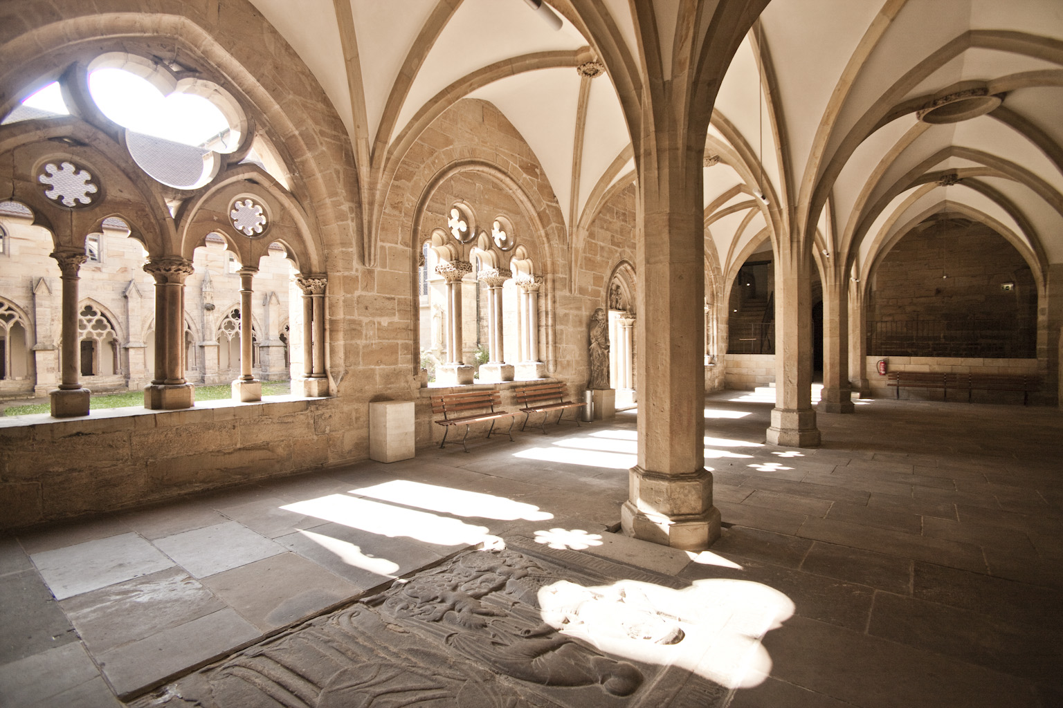 University of Erfurt